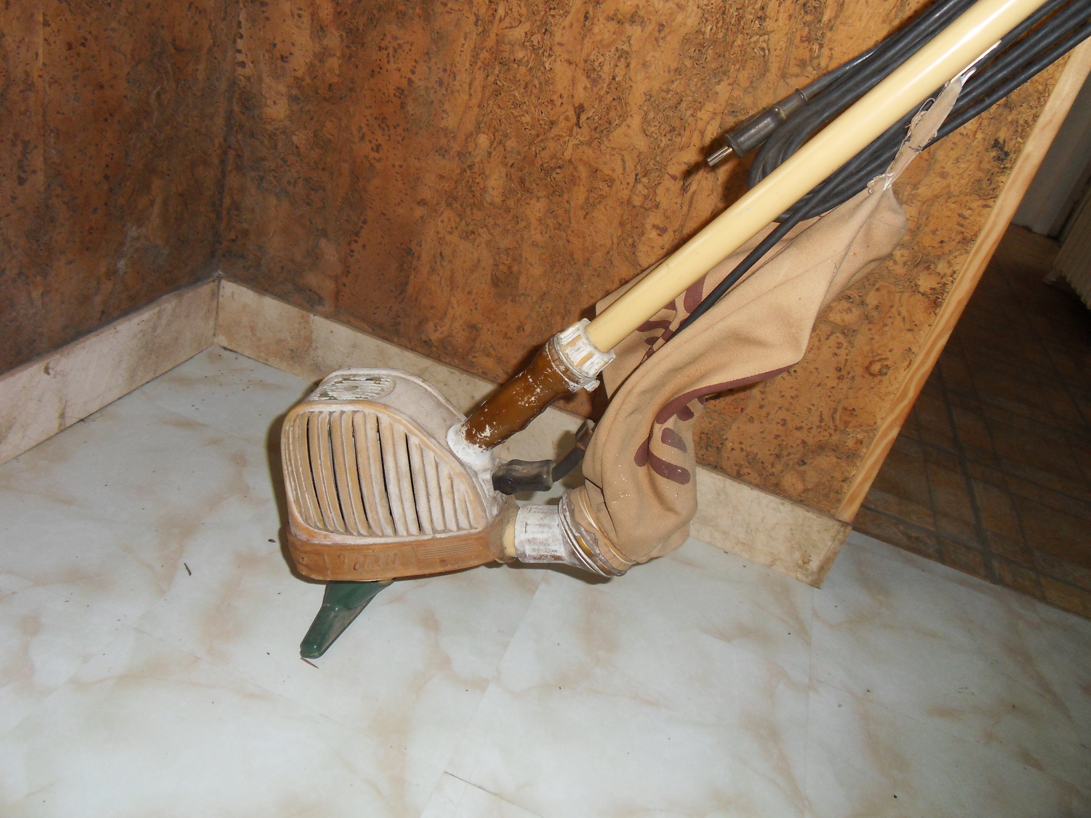 Old vacuum cleaner